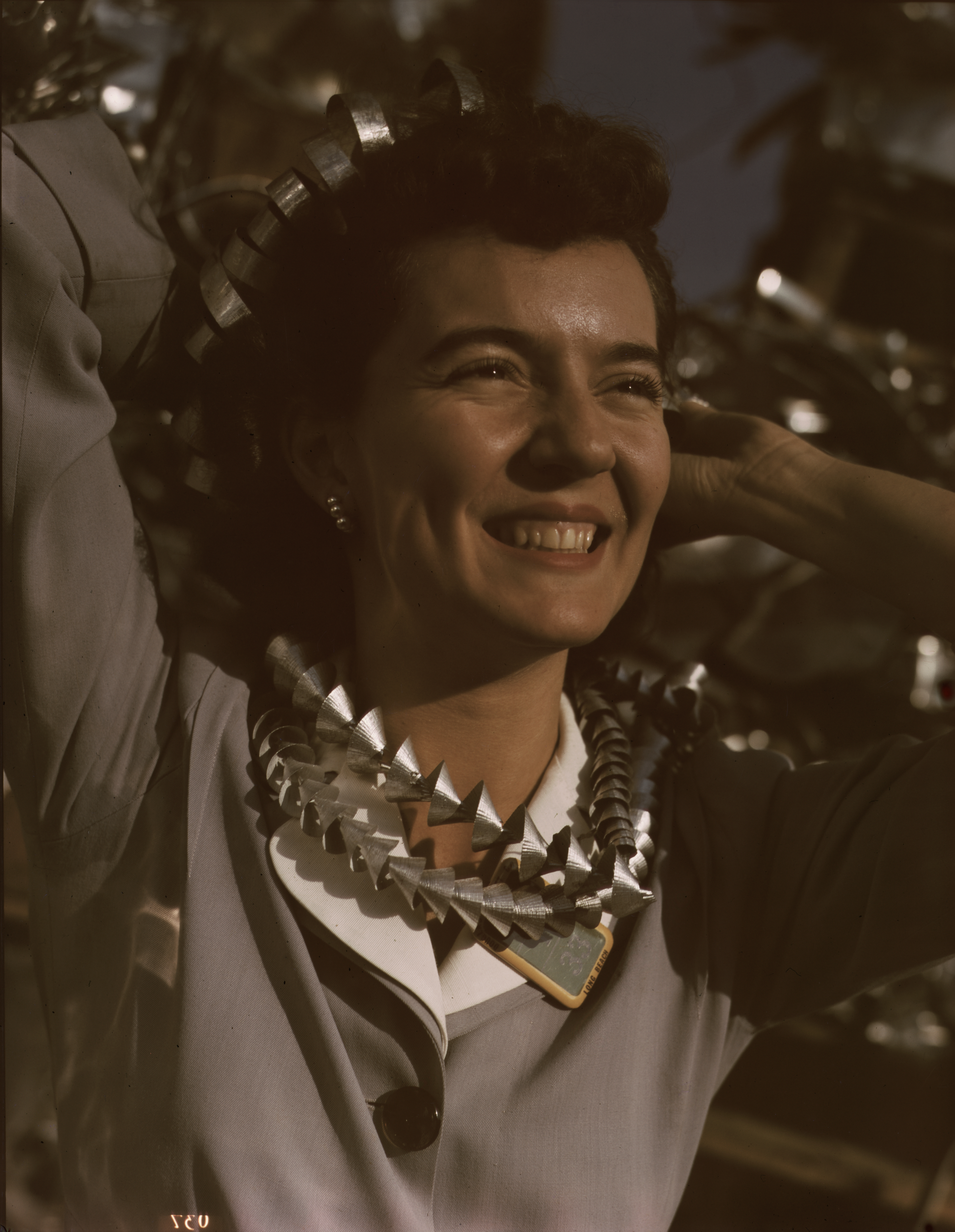 Annette del Sur public[iz]ing salvage campaign in yard of Douglas Aircraft Company, Long Beach, Calif.